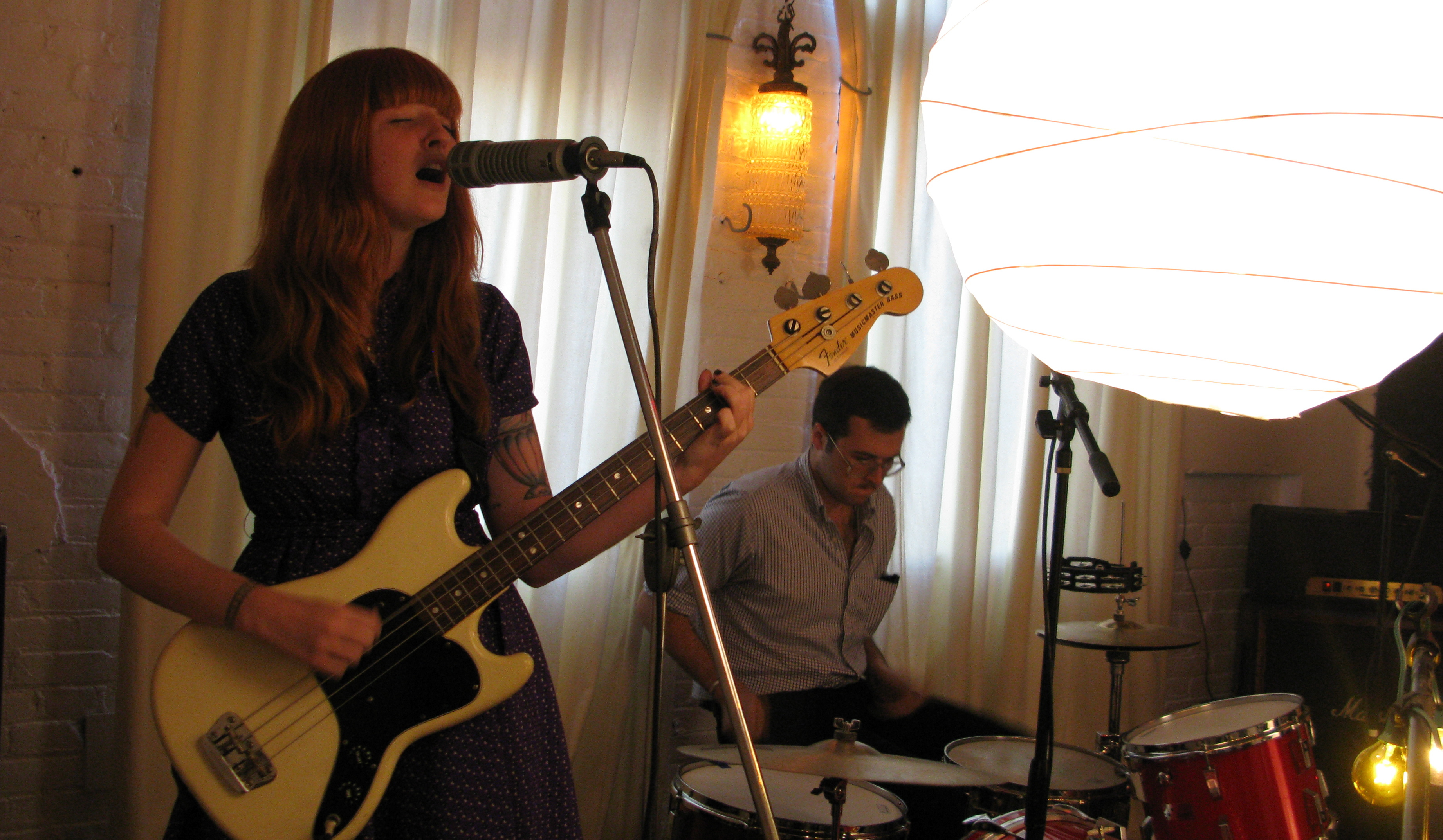 Katy Goodman Jonathan Weinberg A few days before embarking on La Sera's first UK tour, mastermind Katy Goodman (vox/bass) and hired guns Jennifer Prince (guitar/vox) and Jonathan Weinberg (drums/dry humor), stopped by Room 205 to blast through a few songs from Katy's upcoming full-length on Hardly Art. BIO Since joining all-female punk trio Vivian Girls during the spring of 2007, vocalist/bassist Katy Goodman's dreamy DIY talents have sent waves of admiration throughout the independent music community. After touring the world, releasing a handful of well-received records, and starting the label Wild World with her Vivian Girls band mates, Katy played in the short-lived dream-pop band All Saints Day and released a hard-to-find self-titled 7" of spectral pop tunes. In February 2010 she began working on fresh material for her new side band, La Sera. According to Goodman, the project's inspiration springs from an attraction to ethereal choral vocals and pop hits of the 1950's. Indeed. COMPONENTS Video YouTube: Vimeo: Photos Flickr: Music SoundCloud: CREDITS Executive Producer Incase: Producer Arlie Carstens: Director Aaron Farley: Set Designer Tamarra Younis: Audio Engineer Butchy Fuego: Camera Jared Eberhardt: Sean O' Malley: Editor Aaron Farley: Photos Arlie Carstens: Performing Artist La Sera: Label Hardly Art: Room 205 Theme Song Cora Foxx